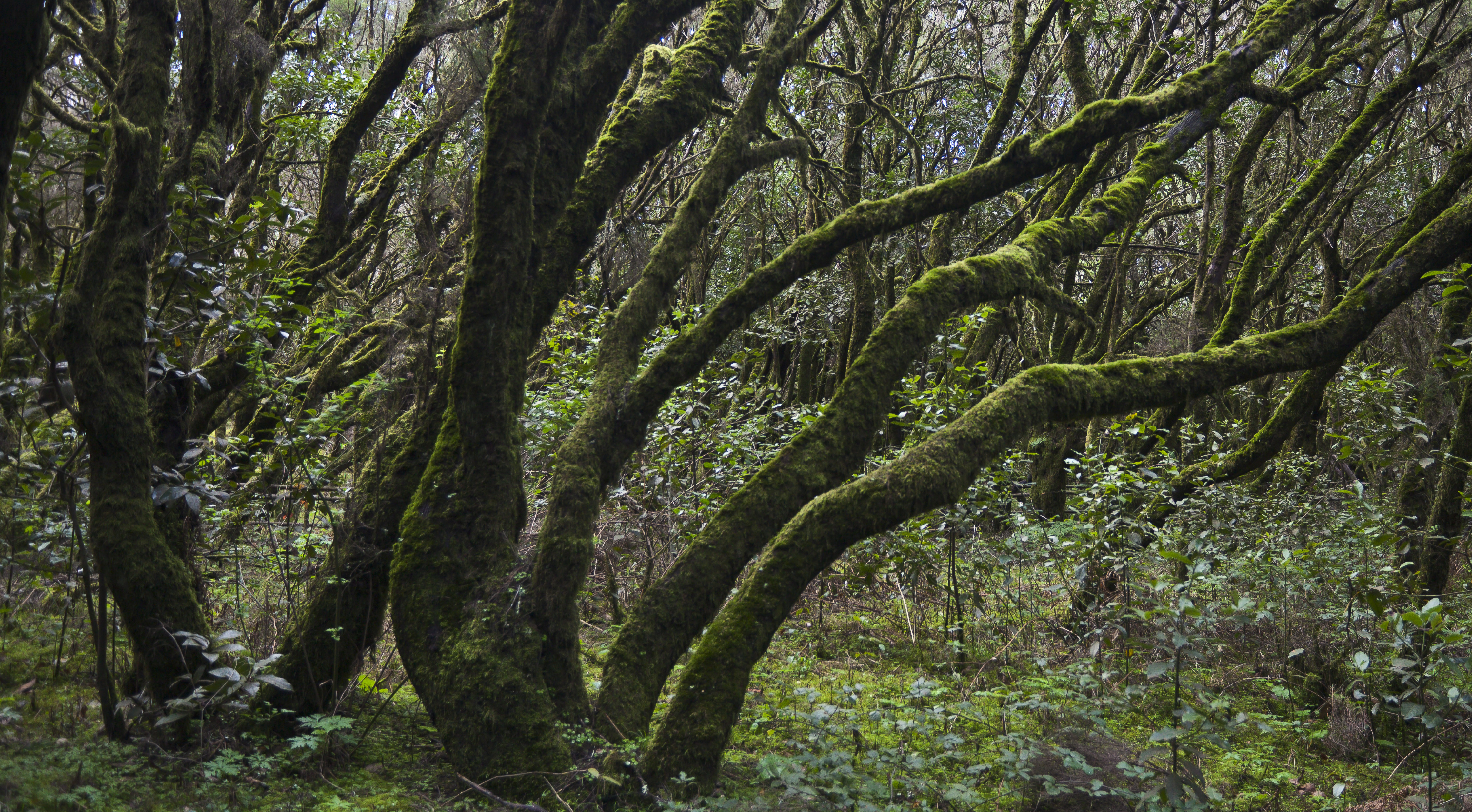 Enchanted Forest, Garajonay National Park, La Gomera, Spain